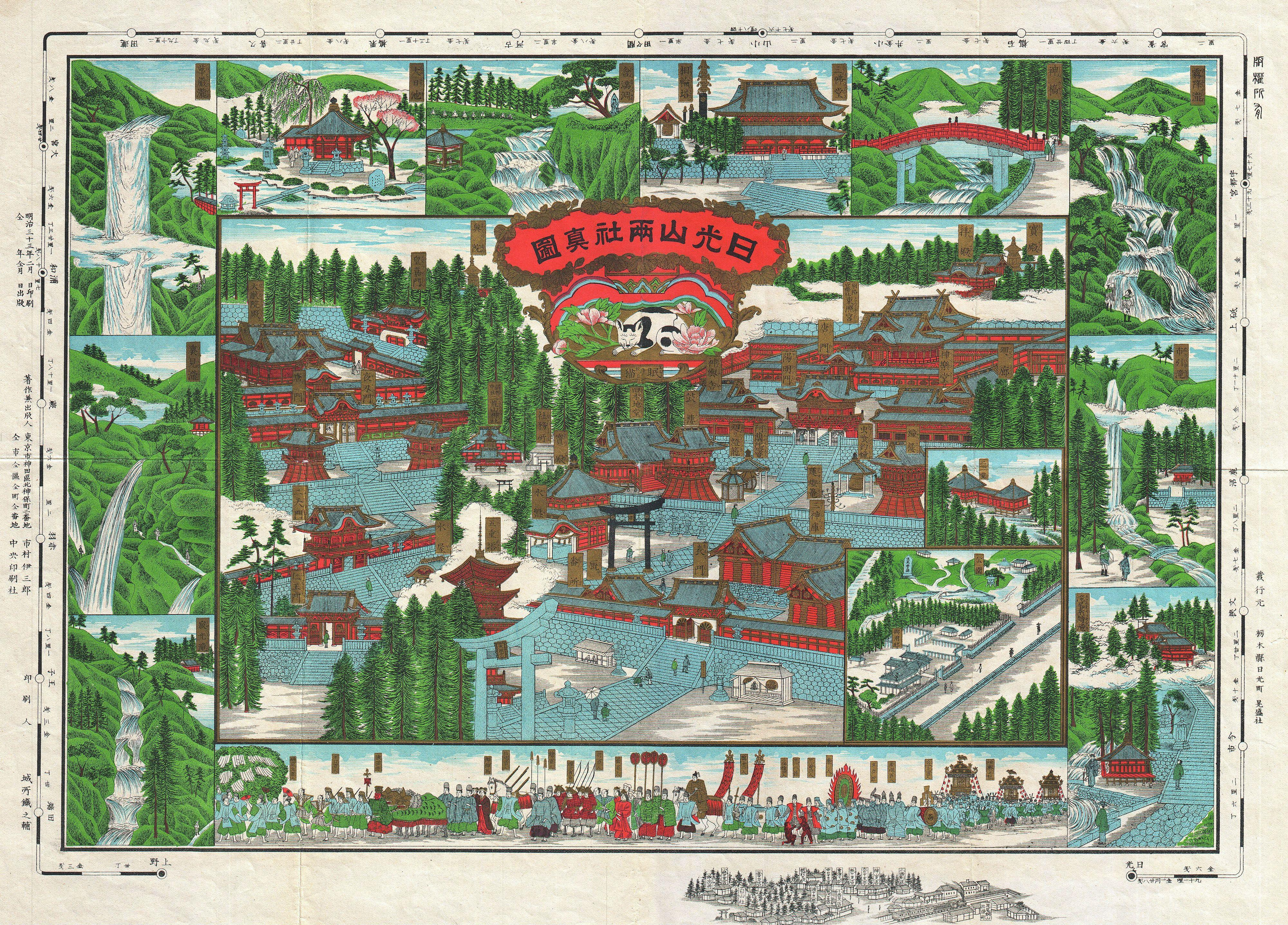 This is an extremely attractive c. 1901 Japanese view of Nikko, Japan. Covers the city center and surrounded by images of Nikko’s most beautiful destinations. Smaller black and white view of the entire city, including the train station, below actual map. Train schedule around the outside doubles as a decorative border. Title cartouche features a black and white cat amidst cherry blossoms. Nikko is a U.N. World Heritage Site and considered to be one of the most beautiful cities in Japan.